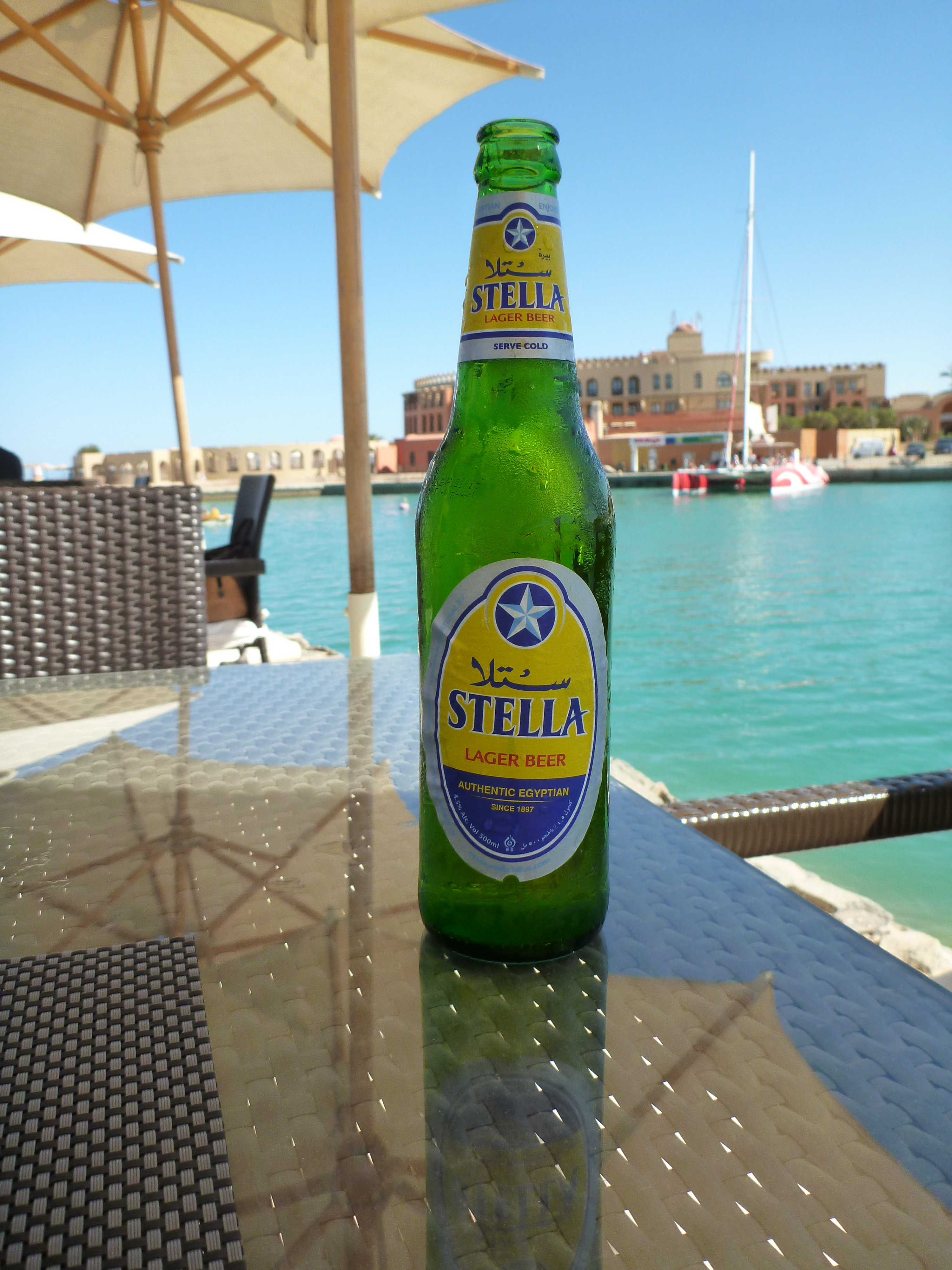 Bottle of the Egyptian Stella beer in El Gouna